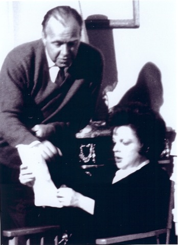 Ronald Neame and Judy Garland on the set of I Could Go On Singing, 1963.